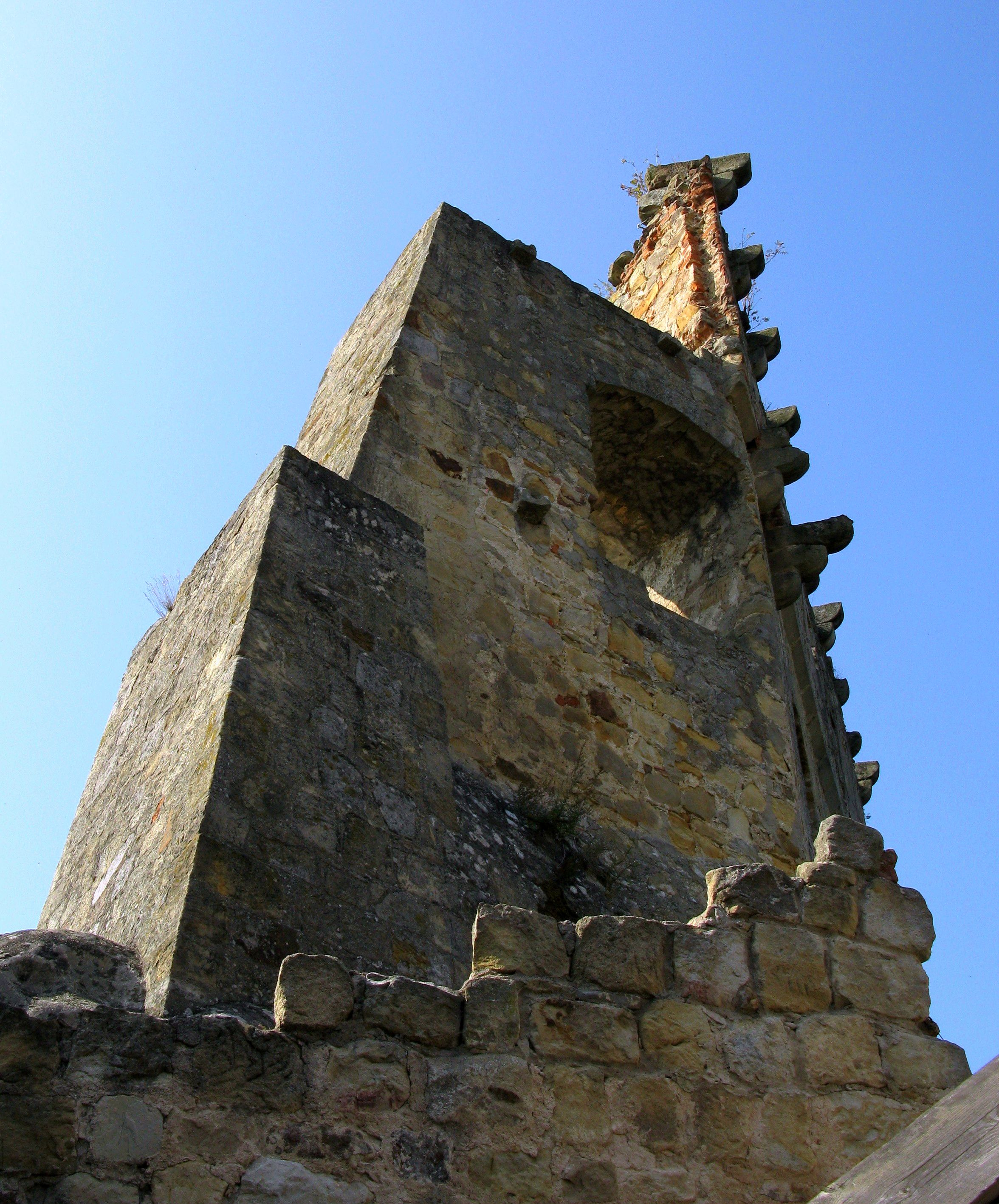 Kamieniec Castle in Odrzykoń, Poland (Zemsta wall)